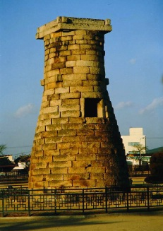 Cheomseongdae Observatory in Gyeongju, South Korea